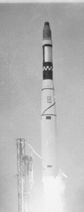 Launch of LV Thor Agena D with spy satellite Corona 58 (Dec. 14, 1962)